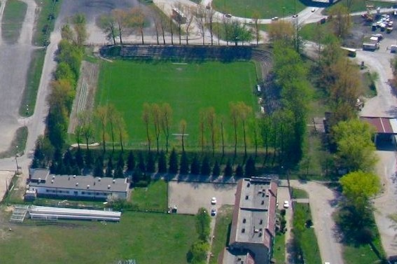 Photo for new stadium in Lubin - Dialog Arena.